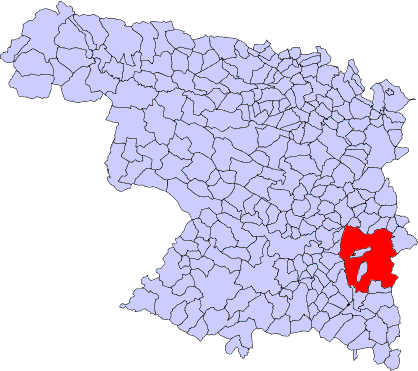 Location of Toro, Municipality of Zamora, Spain.